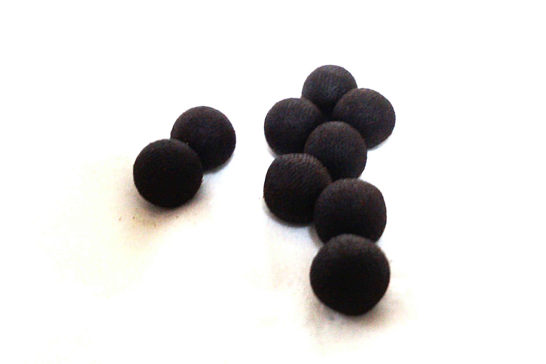 A picture of several pills of Seirogan, a kind of antidiarrheic drugs.